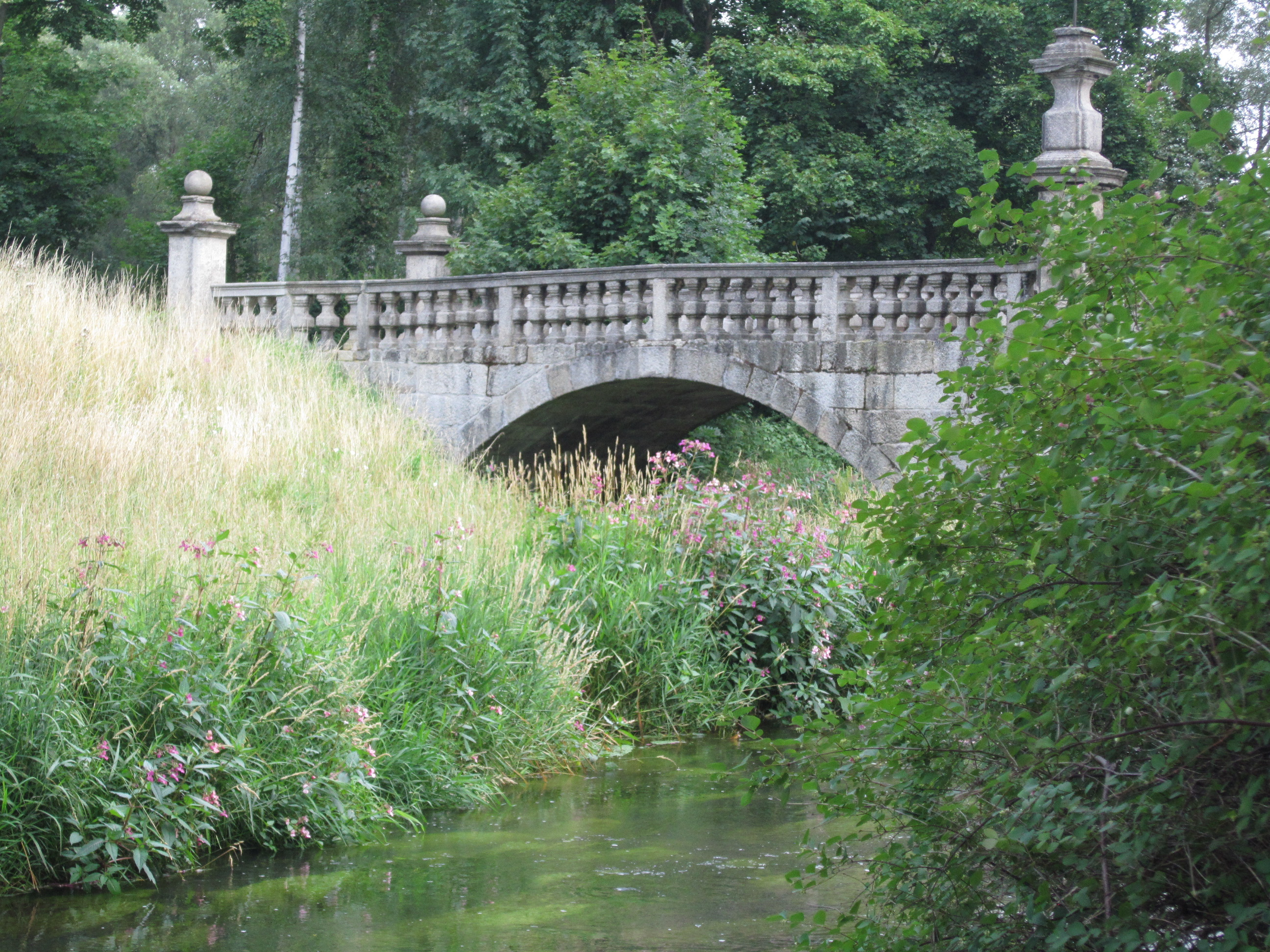 River Wondreb (Odrava) in Waldsassen